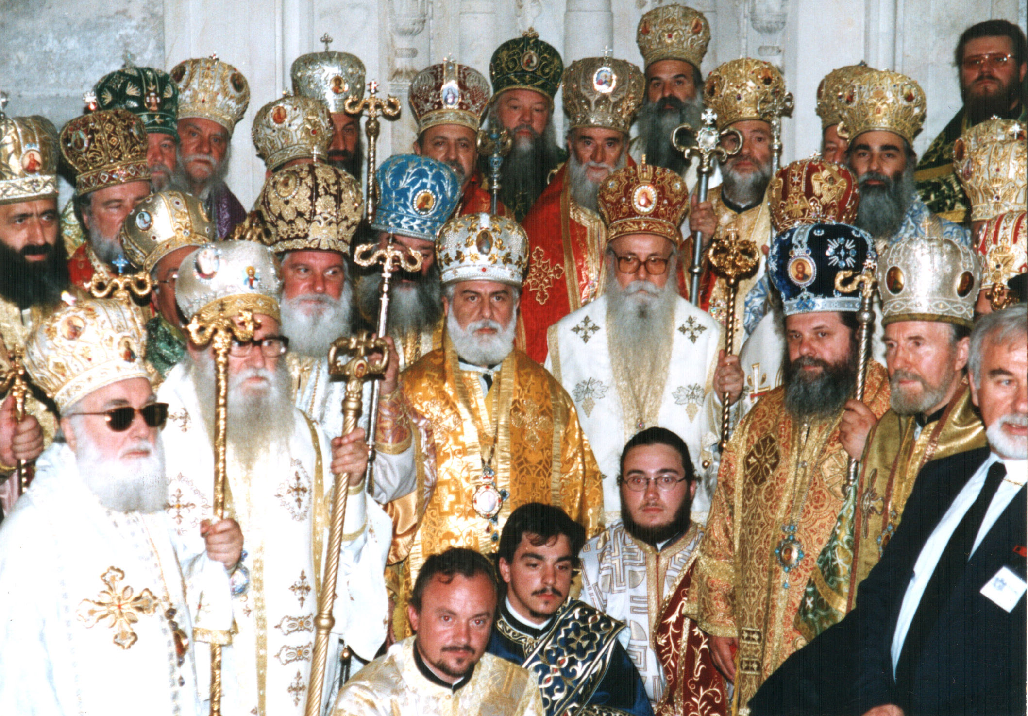 2000 Christmas celebration of Pentecost all the world's Orthodox Church delegation gathered in Jerusalem